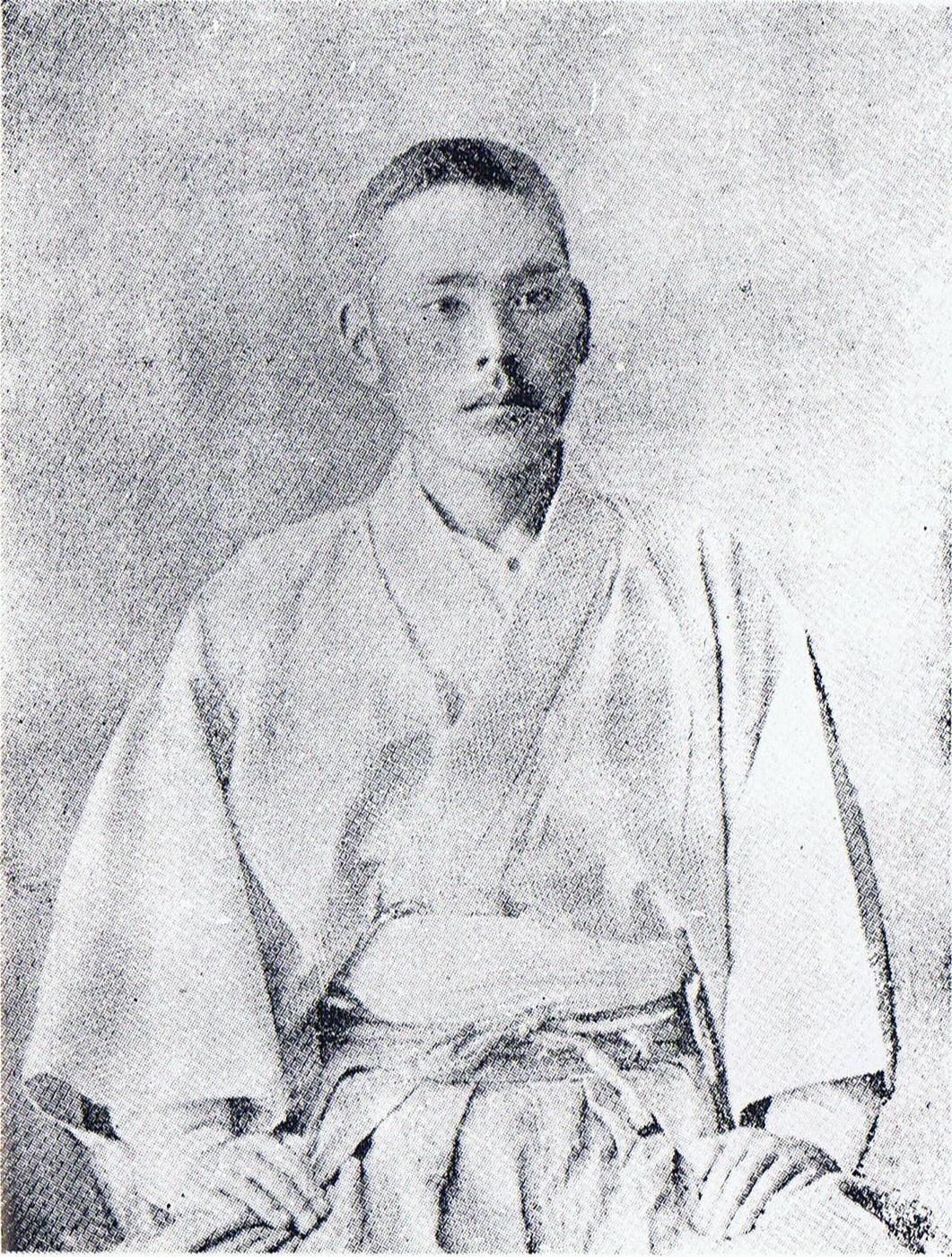 Yoshiti Yutaro